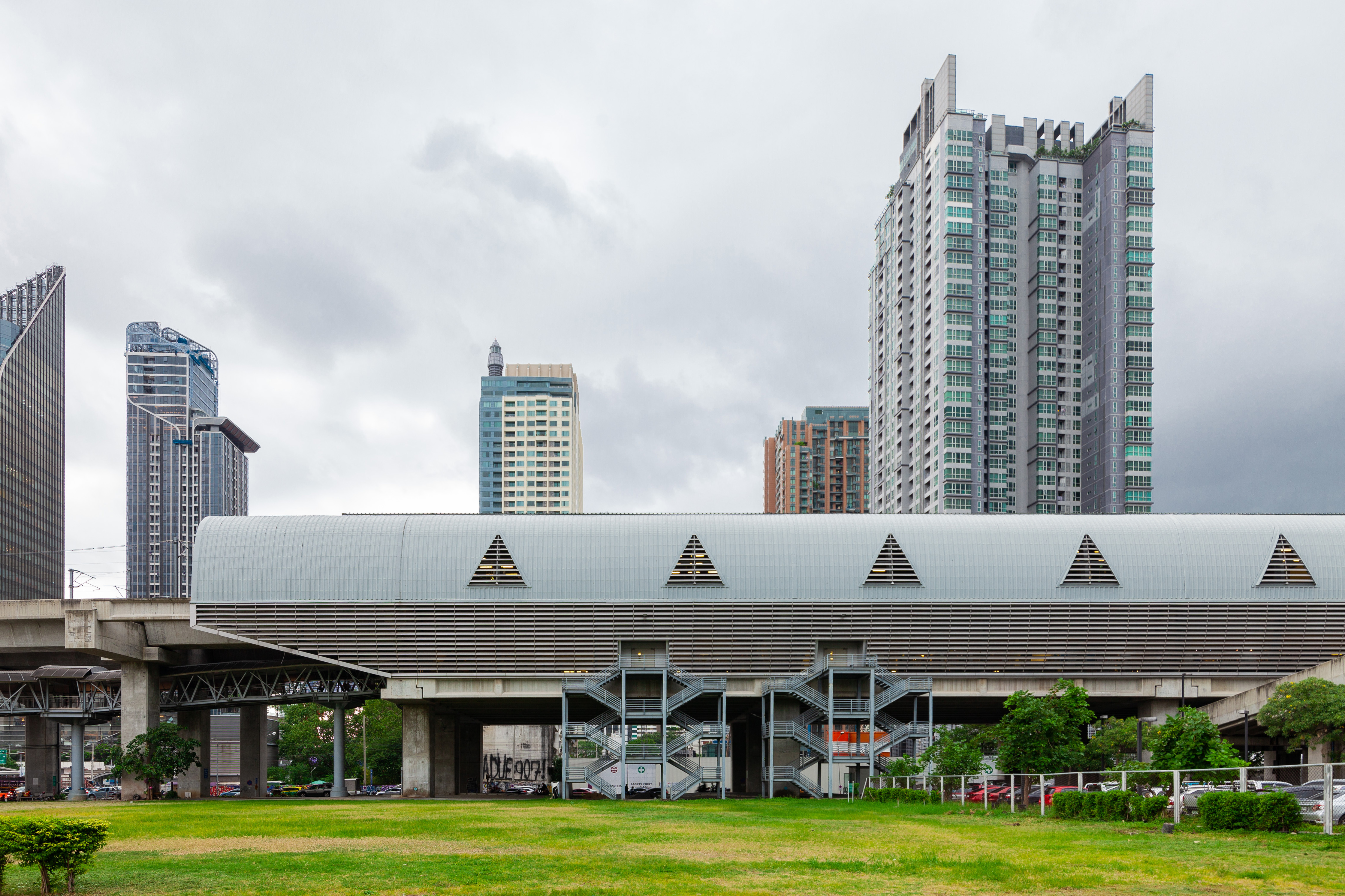 Makkasan Station (Thai: สถานีมักกะสัน) is a rapid transit station on the Airport Rail Link. The station was opened in August 2010. It is the biggest rapid transit station in Bangkok. City Air Terminal was the terminal station for the Airport Rail Link Express Line, which was suspended in September 2014 due to a shortage of rolling stock. Currently, the station is a stop on the Airport Rail Link City Line.